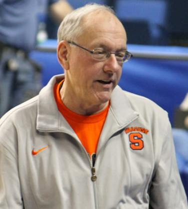 In Buffalo, 2010